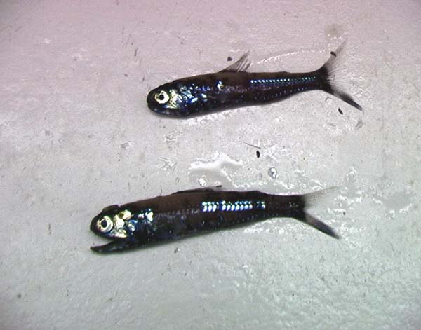 Lanternfish are a mesopelagic species that migrate from the deep midwater (800-1000 m) to shallower depths (200 - 300 m) during the night. They migrate at night to feed and avoid predation from larger species, and return back to the deep midwater during the day. Lanternfish are among the most abundant and diverse of all oceanic fish families. NOAA/OER.